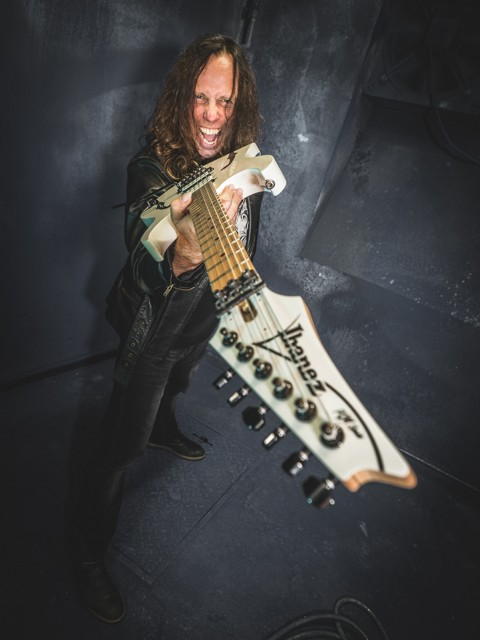 Daniel Krob 2016